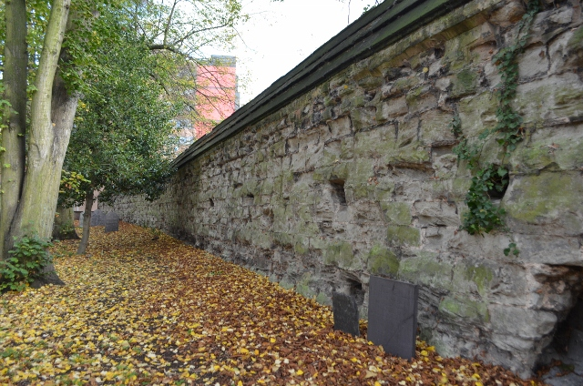 Castle Wall, Data from Geograph: Description: A good stretch of castle wall with gun holes poked in during the civil war. ICBM: 52.631890107377, -1.139893906929 Location: (about 1 km from) near to Leicester, Great Britain.